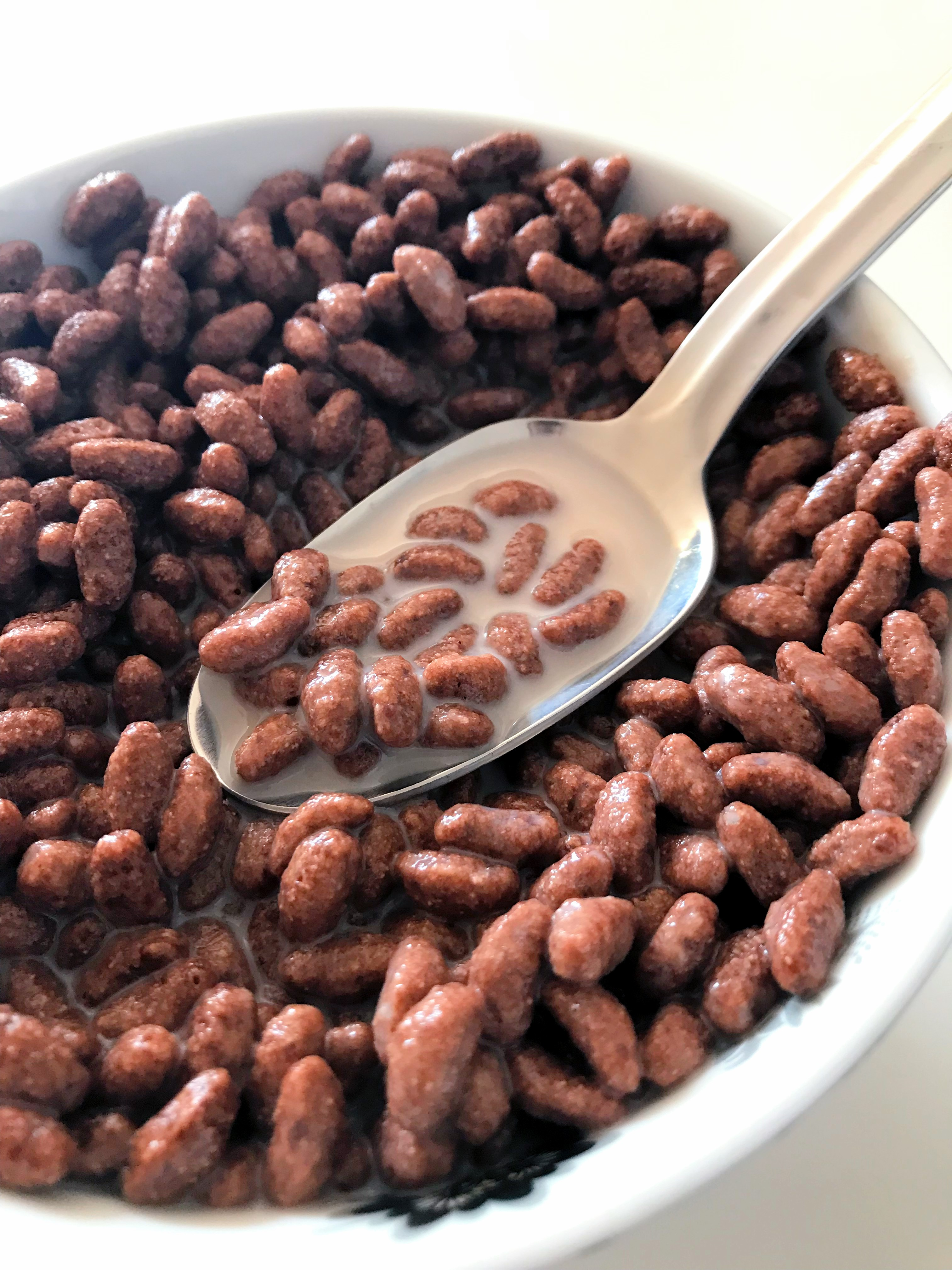 Coco pops chocolate cereal